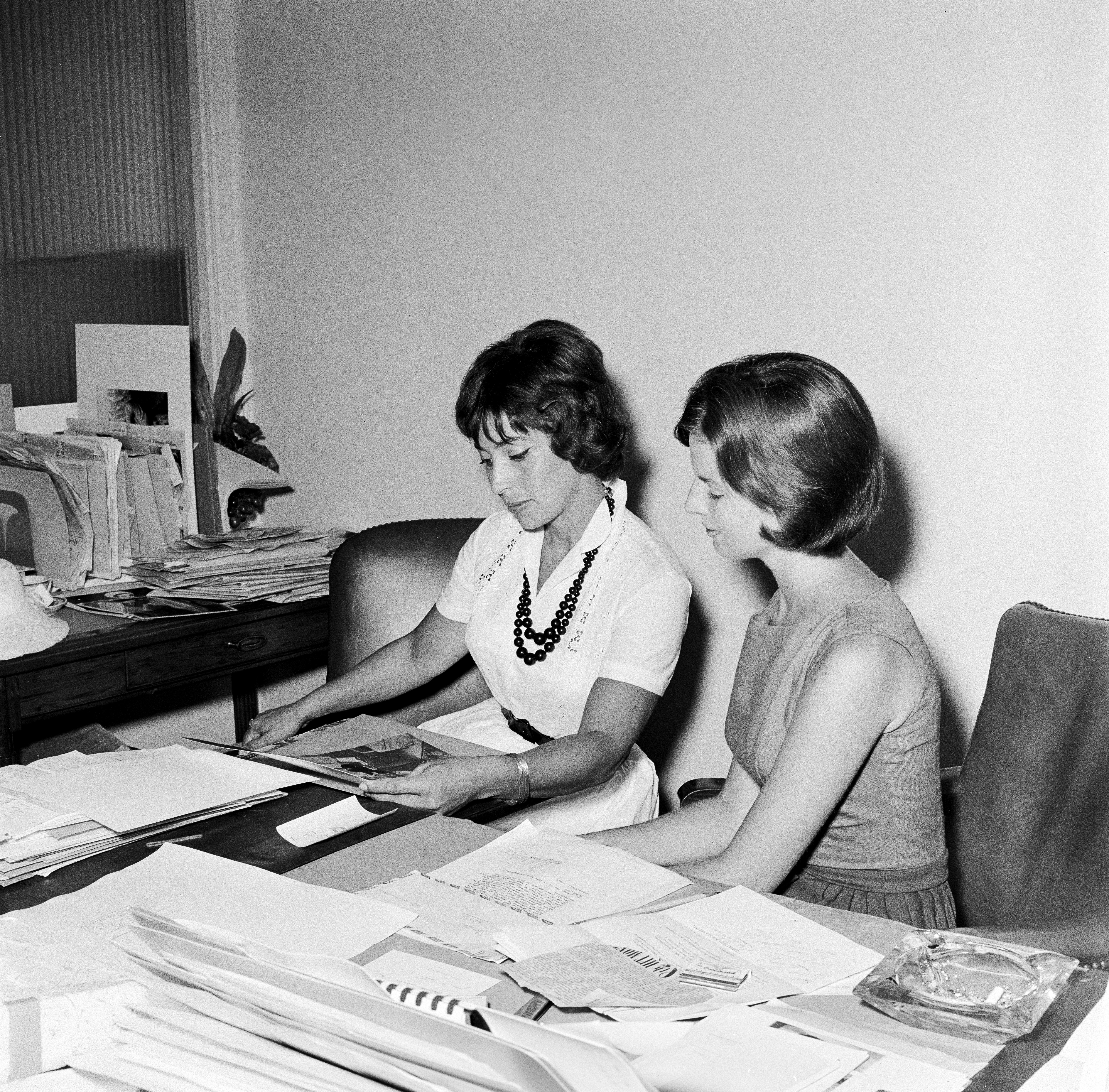 Original Caption: First Lady's Press Secretary, Pamela Turnure, with a Foreign Correspondent We are looking for your help in identifying unknown people in our White House Photographs collection. If you have any information about this photograph, please post a comment, including any relevant sources, for the catalogers at the John F. Kennedy Presidential Library. Thank you! Local Identifier: JFKWHP-KN-18437 Created By: President (1961-1963 : Kennedy). Office of the Naval Aide to the President. (1961 - 1963) From: Collection JFK-WHP: White House Photographs, 12/19/1960 - 03/11/1964 Contact: John F. Kennedy Library (LP-JFK), Columbia Point Boston, MA 02125-3398 Phone: 617-514-1600 Fax: 617-514-1652 Production Dates: 28 July 1961 Photo Credit: Robert Knudsen. White House Photographs. John F. Kennedy Presidential Library and Museum, Boston Scope and Content Note: This is a photograph of First Lady Jacqueline Kennedy’s Press Secretary, Pamela Turnure, with a foreign correspondent. Unidentified woman; Ms. Turnure (right). First Lady’s Press Secretary’s Office, White House, Washington, D.C. Persistent URL: JFK Library URL: Access Restrictions: Unrestricted Use Restrictions: Unrestricted